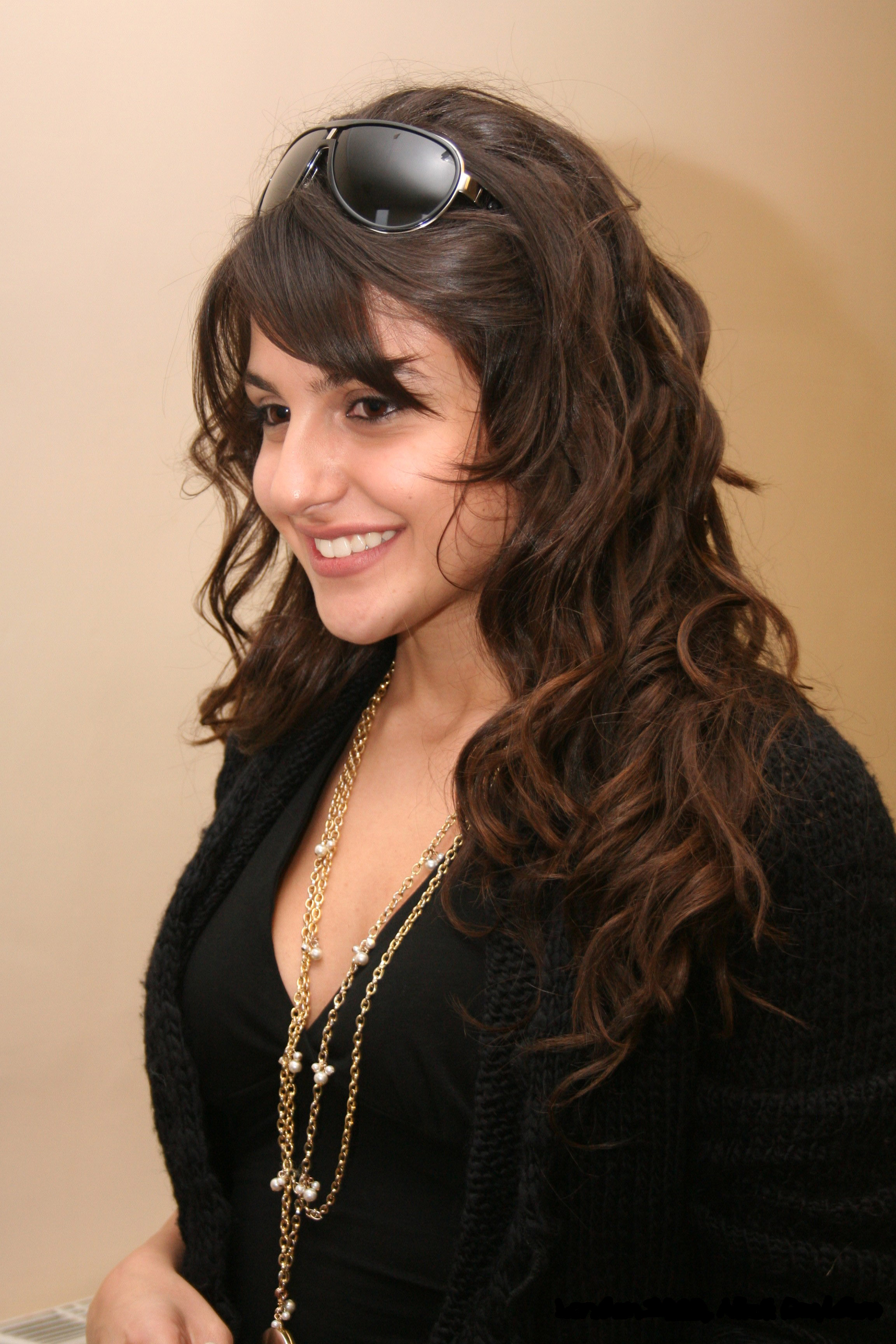 Sirusho, representative of Armenia in Eurovision Song Contest 2008. Taken in London, 2008.